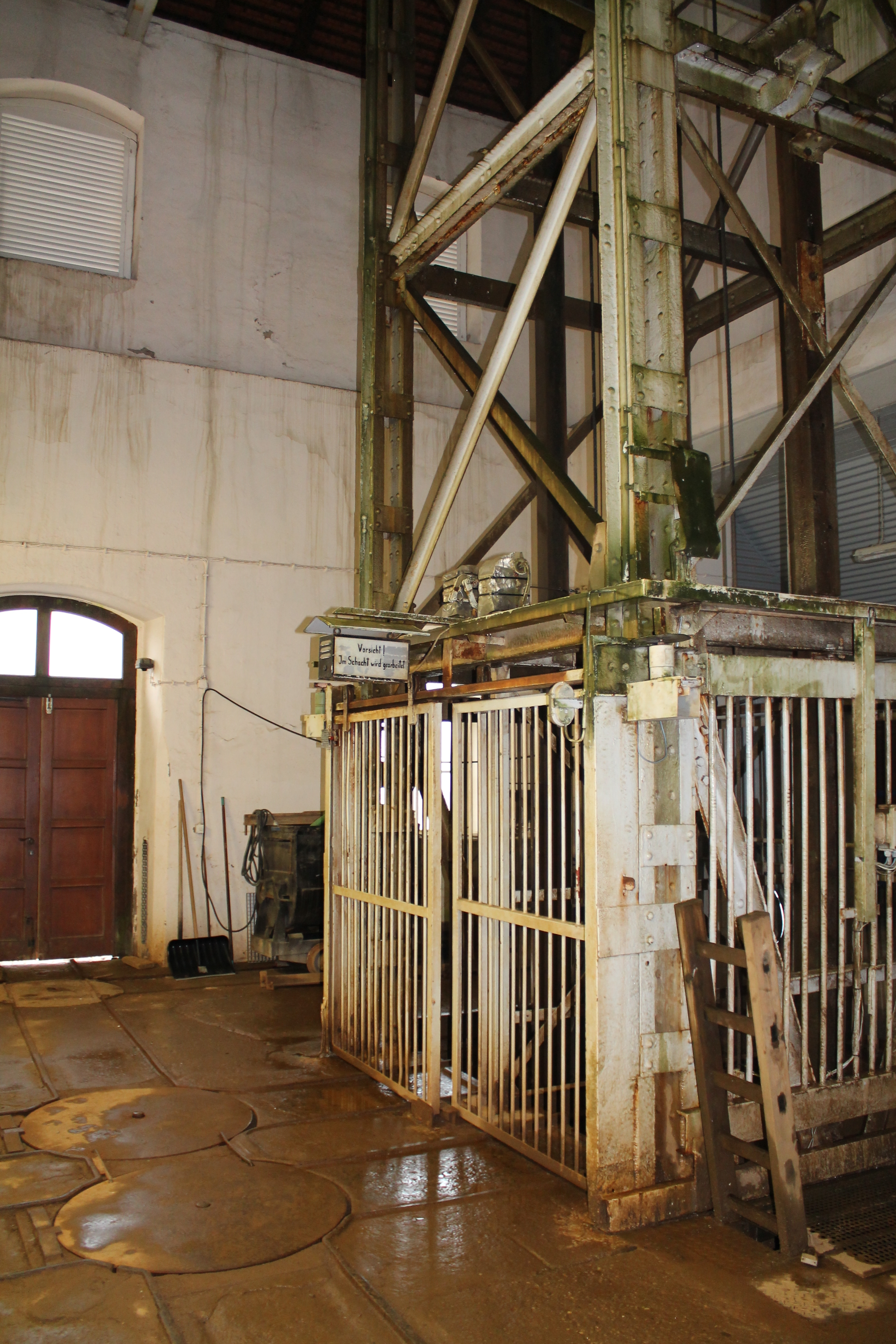 Shaft landing bank of Reiche Zeche in Freiberg, Saxony.